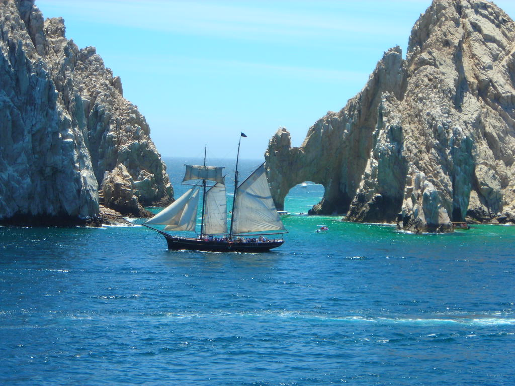 "Clipper Ship at Los Arcos, Cabo San Lucas. Photo taken from a rear balcony on the Carnival Pride during a 7 day Mexican Riviera Cruise. This was an unscheduled stop at Cabo San Lucas to drop off an ailing passenger. We were scheduled to go to Cabo later in the week. This shot is a clipper ship on a tourist cruise to view Los Arcos, a dramatic coastal formation at the end of Baja California, the longest peninsula in the world." (description copied from other image)